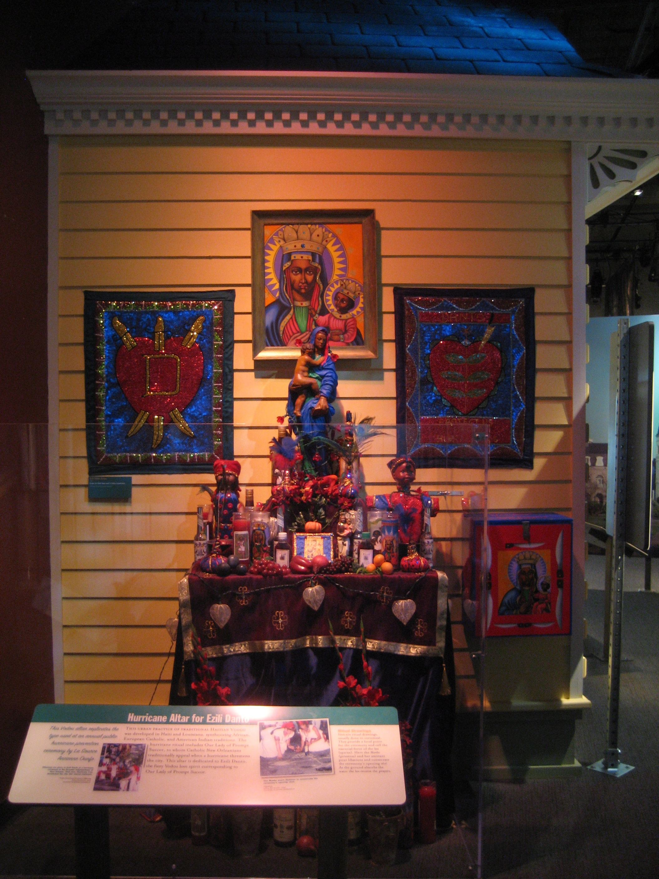 Louisiana State Museum, Baton Rouge, Louisiana. Modern New Orleans Voodoo altar.